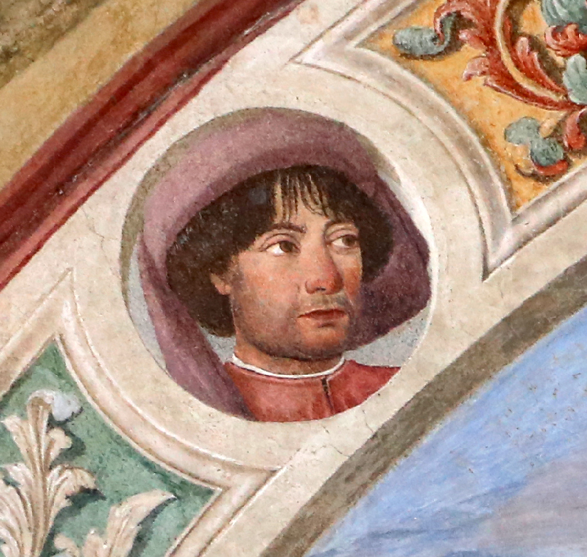 Vocation of Saint Philip Benizi by Cosimo Rosselli